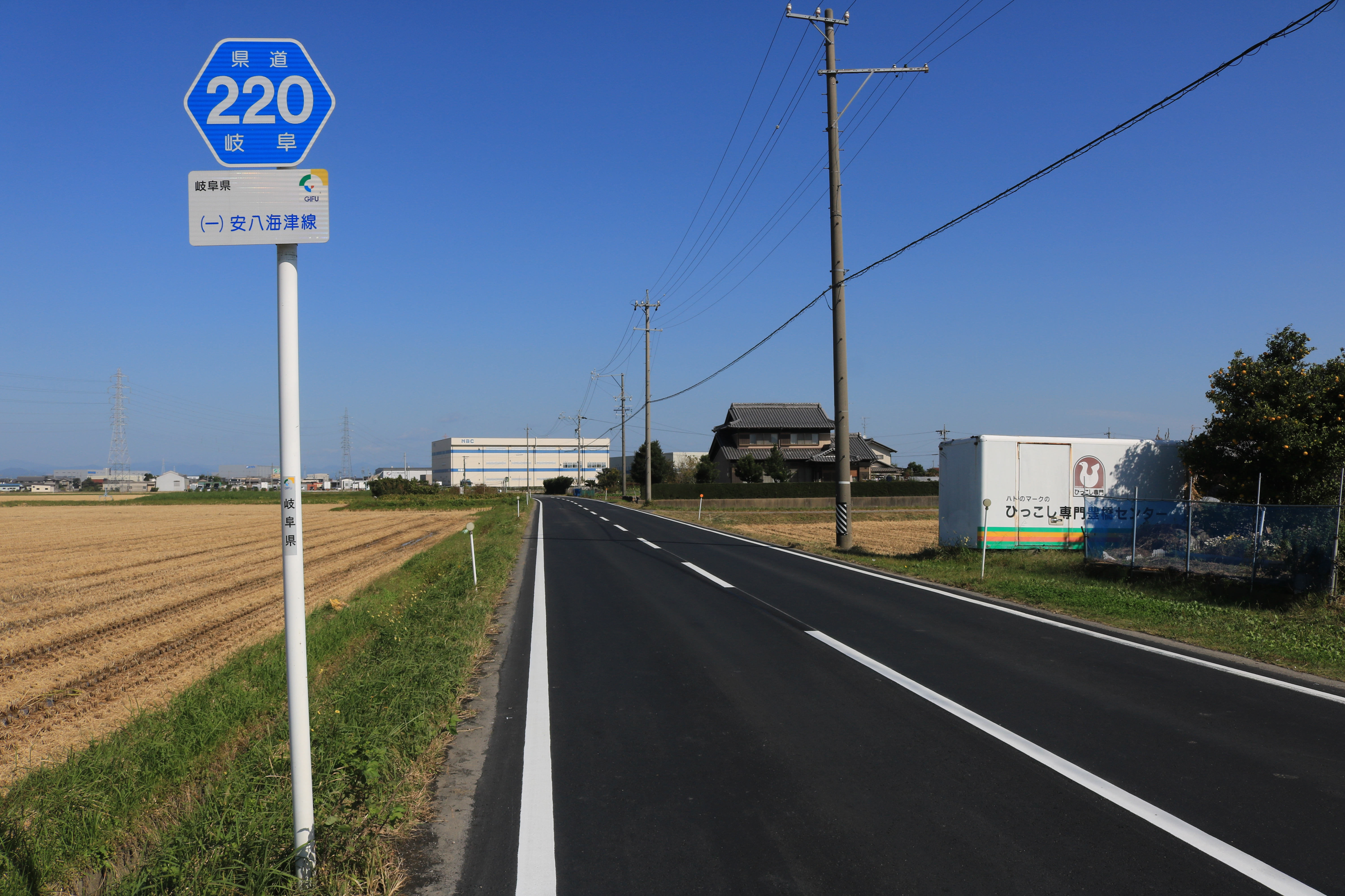 Gifu Prefectural Road Route 220 in Sato, Wanouchi, Gifu prefecture, Japan.